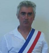 Serge FERNANDEZ